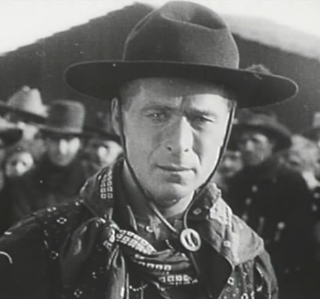 Still photograph of William S. Hart as Blaze Tracy in the 1916 film Hell's Hinges